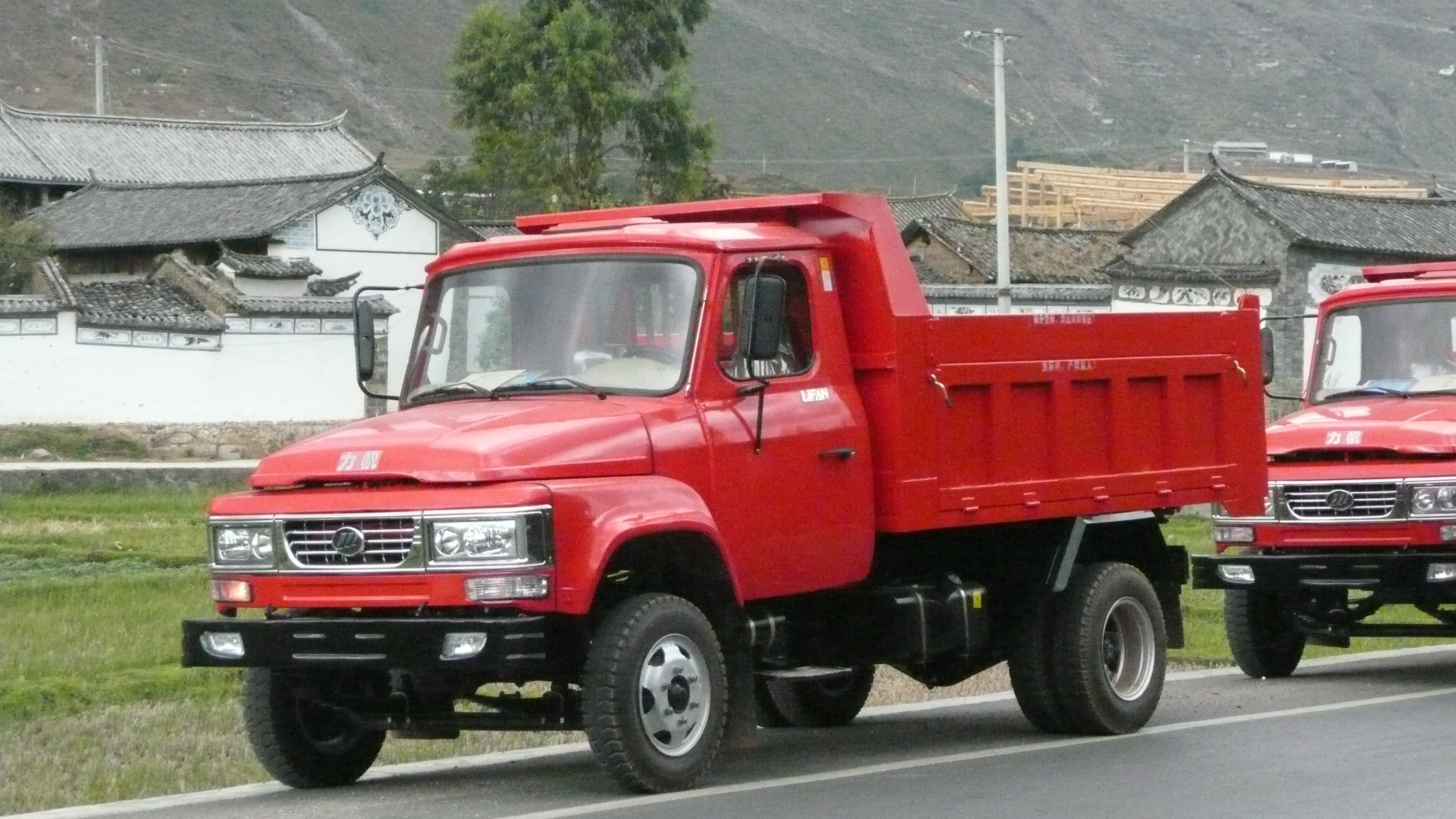 Lifan Truck, Yunnan Lifan Junma Vehicle Co., Ltd., Dali